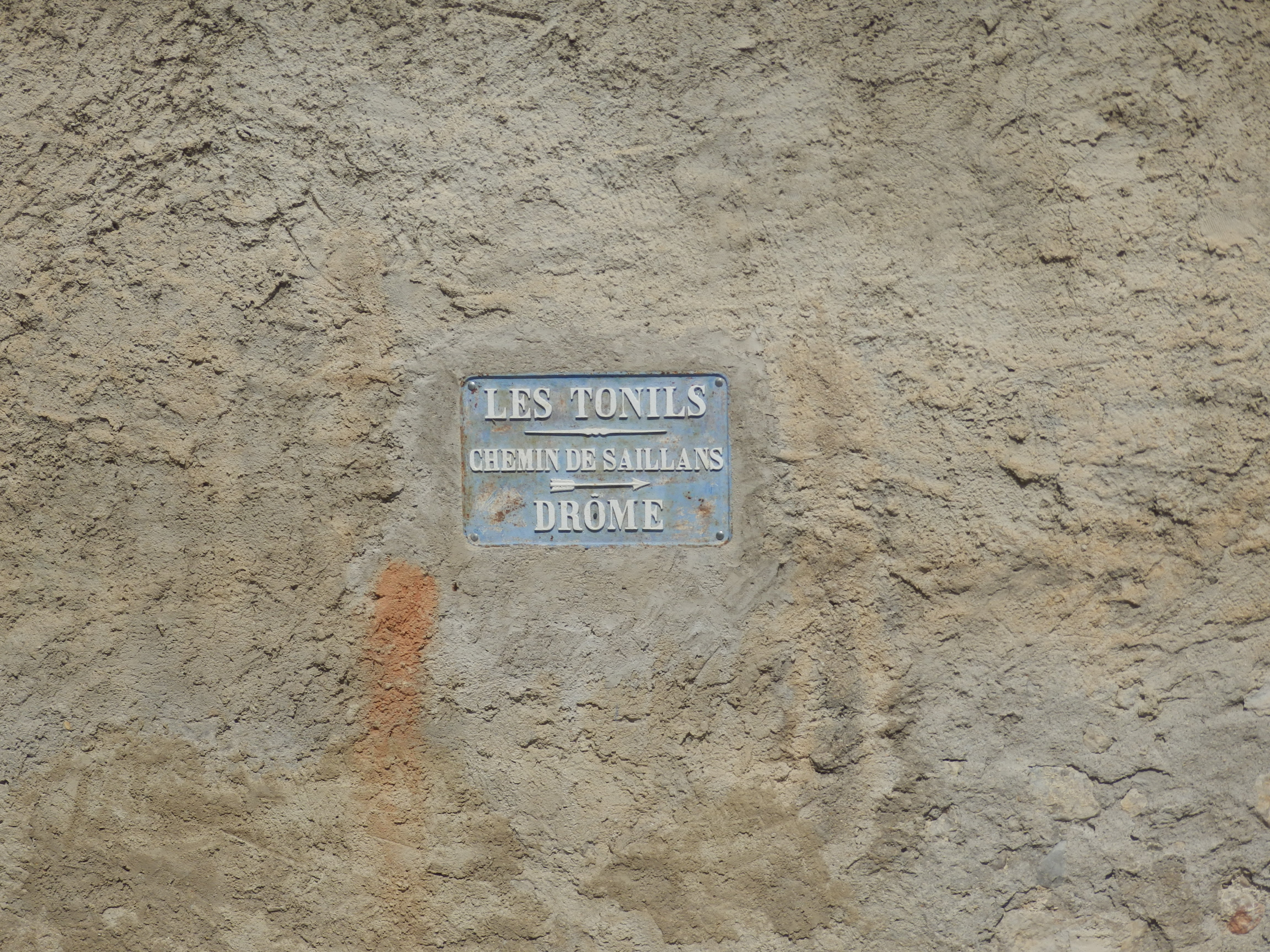 Road sign in Les Tonils, Drôme, France